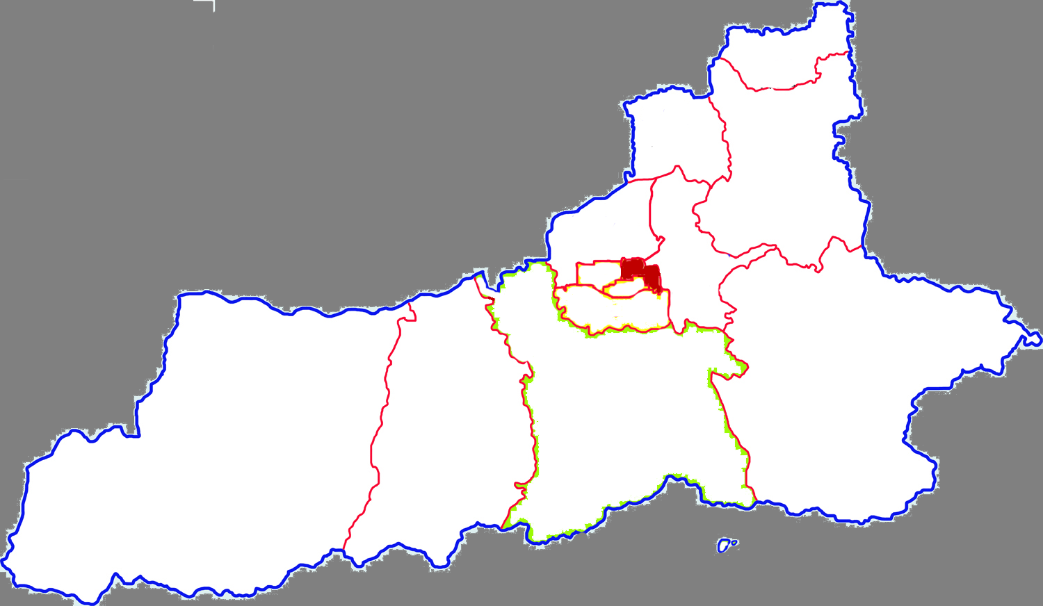 Location of Xincheng district in Xi'an city, China